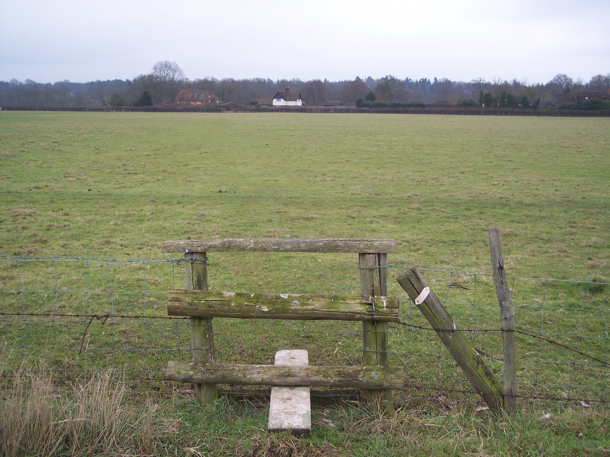 Stile on a path towards the B2027. Showing the site of Penshurst Airfield, later RAF Penshurst. Site just within Leigh parish.